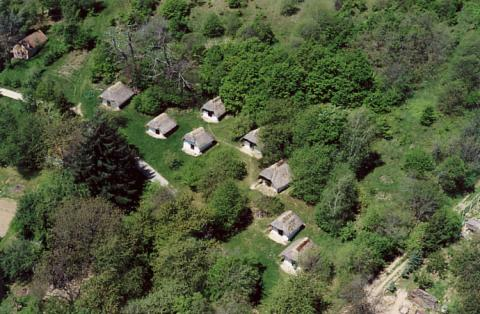 Cák, Hungary, aerial photography